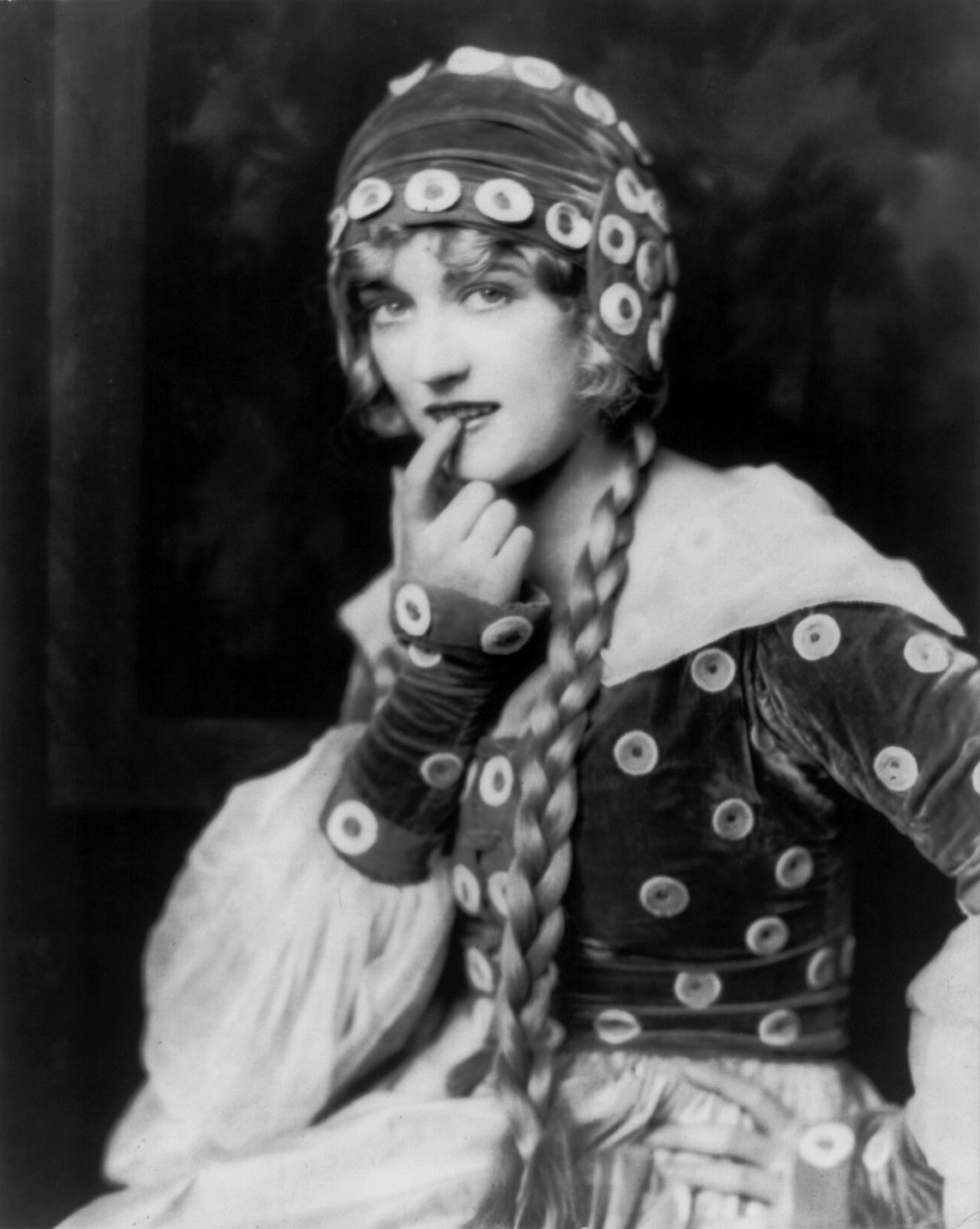 Marion Davies, Ziegfeld girl, Hollywood actress, self-described "silly, giggly idiot" and mistress to William Randolph Hearst, half length, seated, facing left; in Yolanda. Photograph by Alfred Cheney Johnston, 1924. From the Alfred Cheney Johnston Collection at the Library of Congress More pictures by Alfred Cheney Johnston | More black & white portraits [PD] This picture is in the public domain.